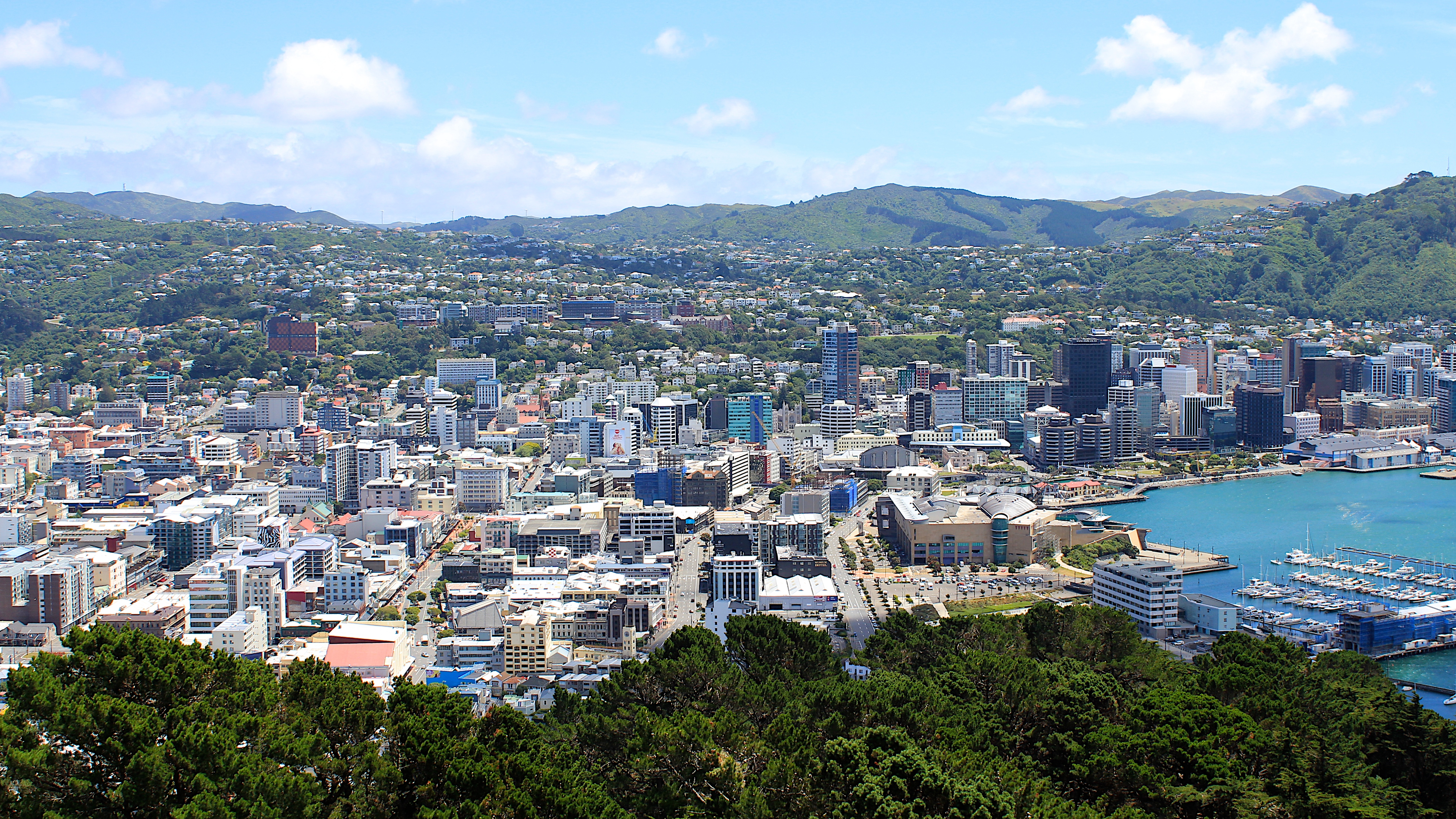 View of Wellington from Mt Victoria